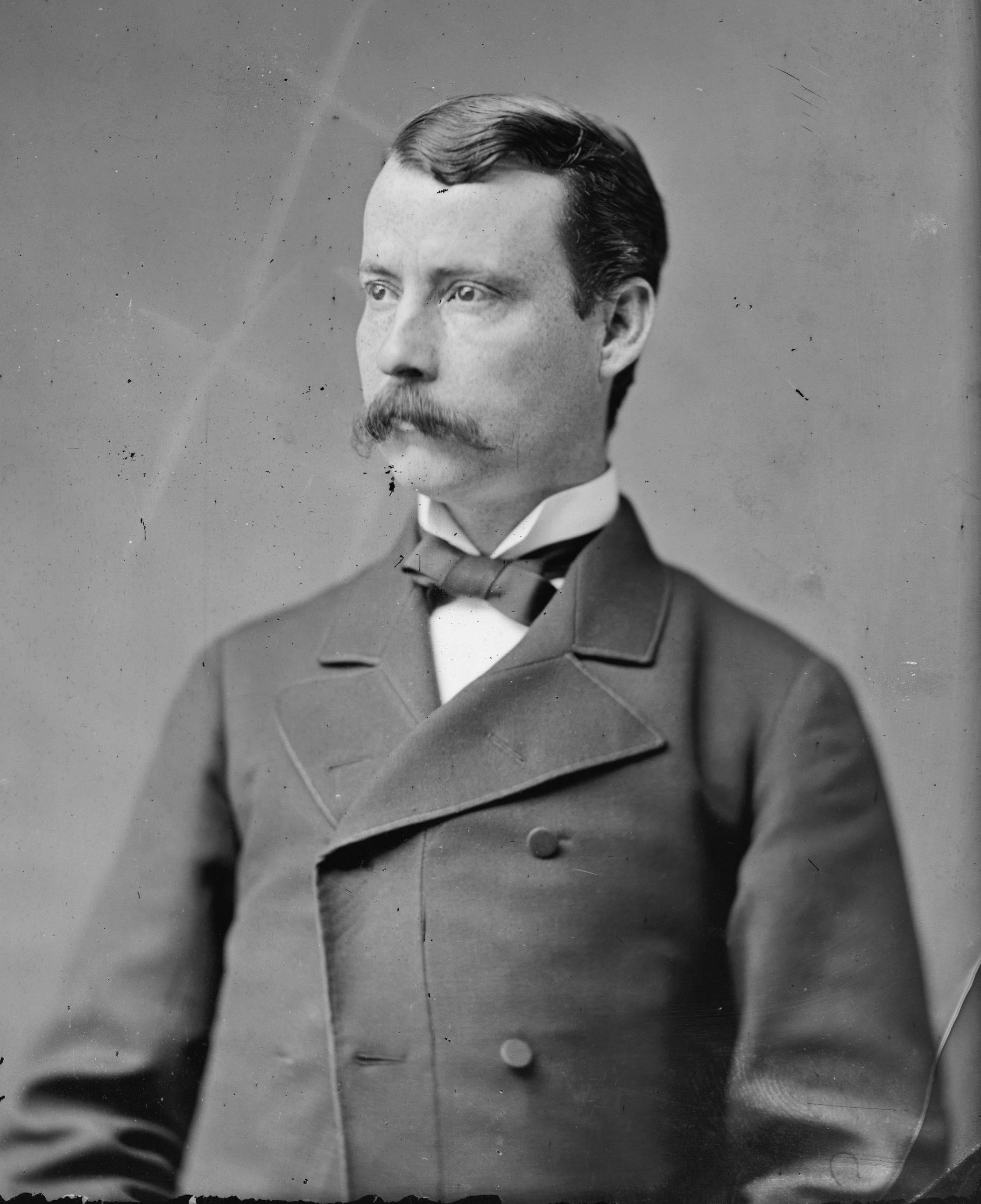 James Bernard Reilly. Library of Congress description: "Riley, Hon. Jas. B. of Pa. Rep. James B. Reilly from Pa.".